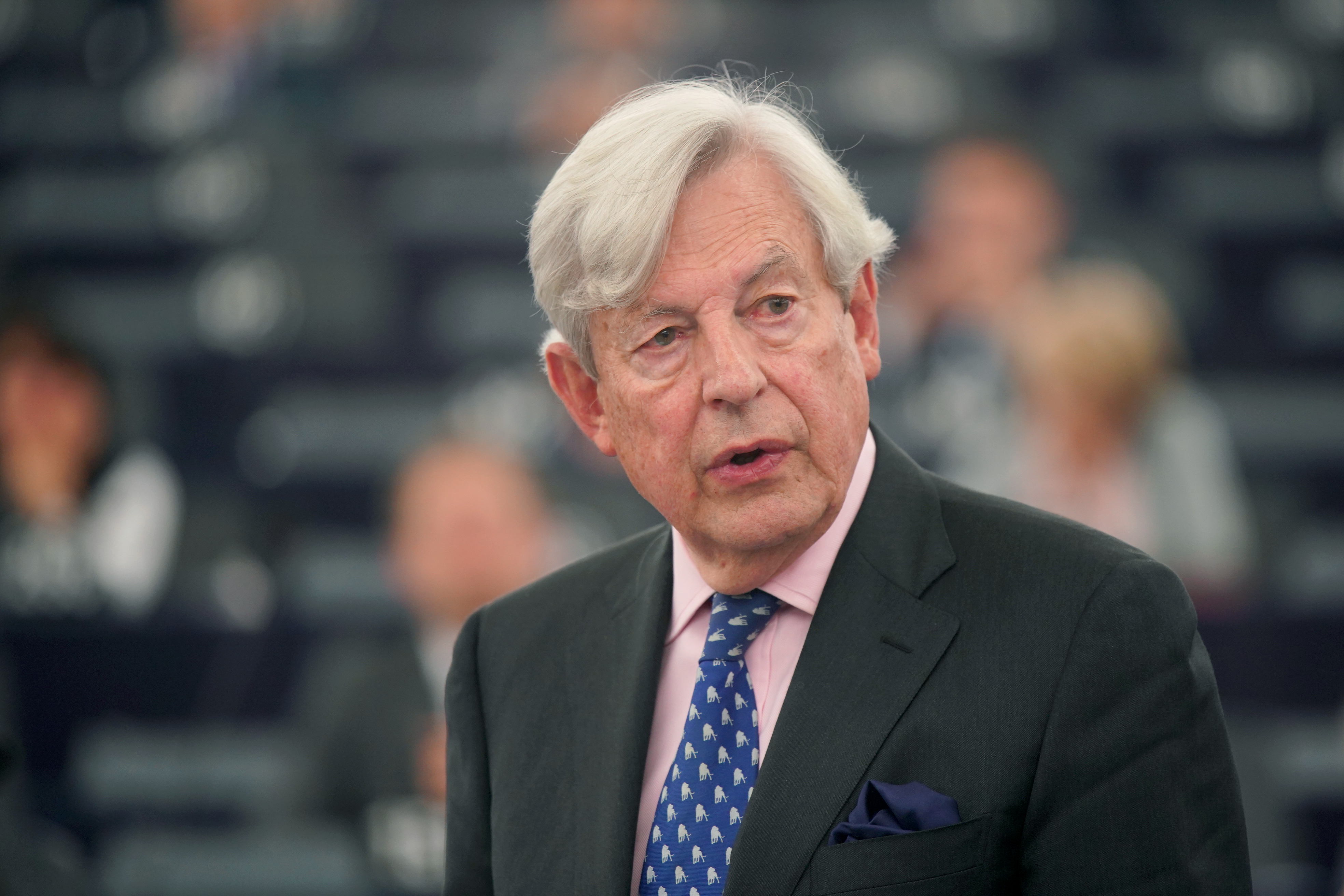 Read more: This photo is free to use under Creative Commons license CC-BY-4.0 and must be credited: "CC-BY-4.0: © European Union 2019 – Source: EP". No model release form if applicable. For bigger HR files please contact: webcom-flickr(AT)